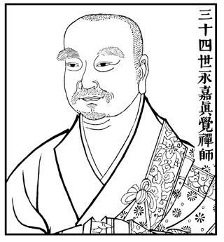 Drawing of Yongjia Xuanjue (永嘉玄覺)